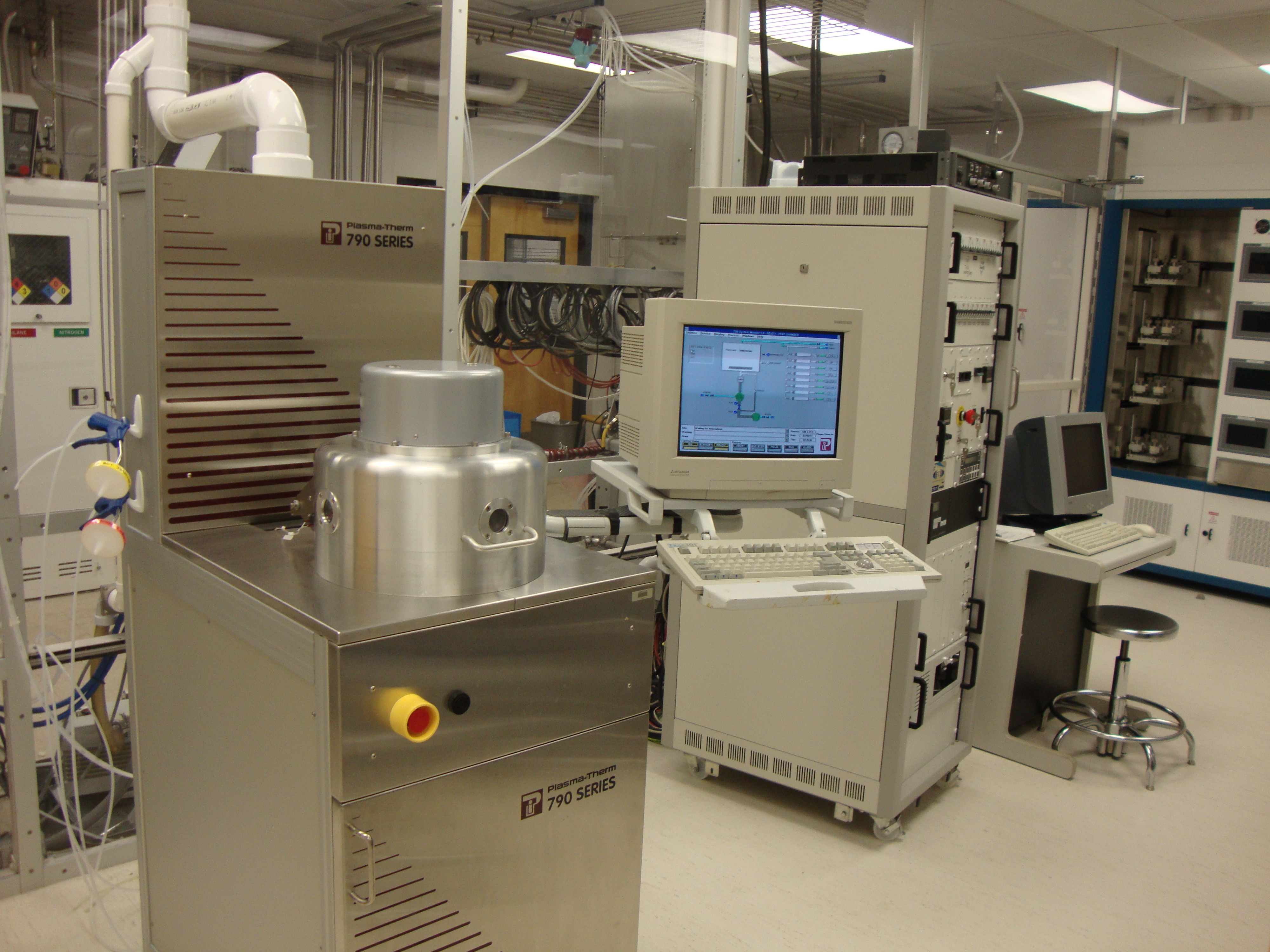 A Plasma-Therm Reactive Ion Etching tool (790 Series) in the labs of University of Alabama in Huntsville.